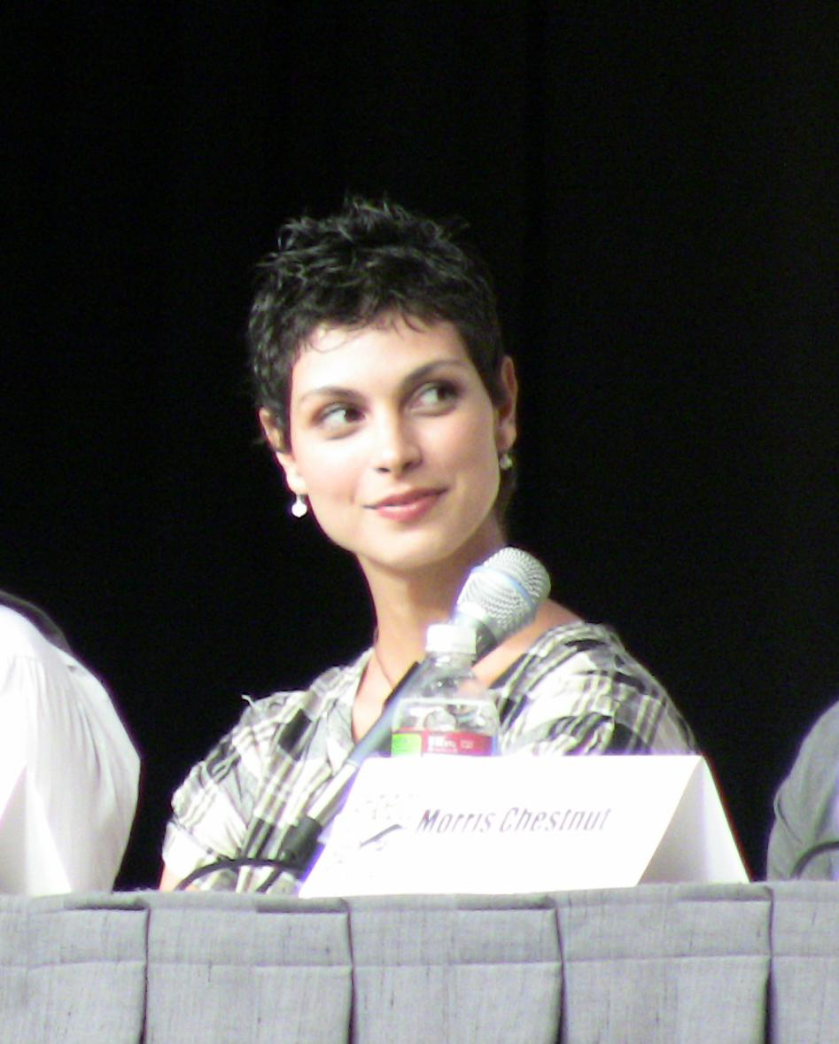 Actress Morena Baccarin – Comic-Con 2009 - V - San Diego, Calif. - July 25, 2009.